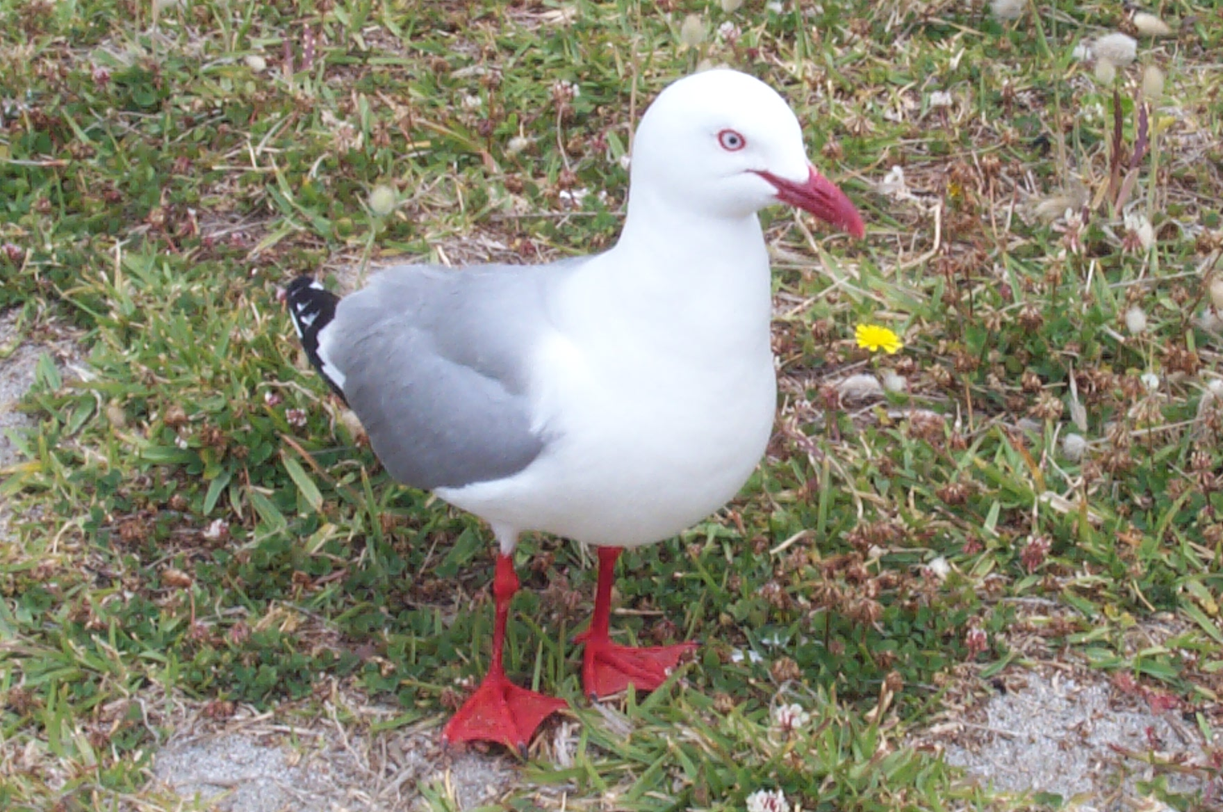 Red-billed Gull Chroicocephalus scopulinus, near Cape Reinga, New Zealand